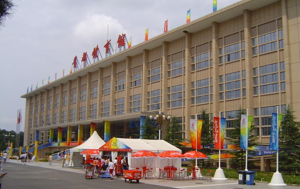 The indoor arena of the Capital Gymnasium.